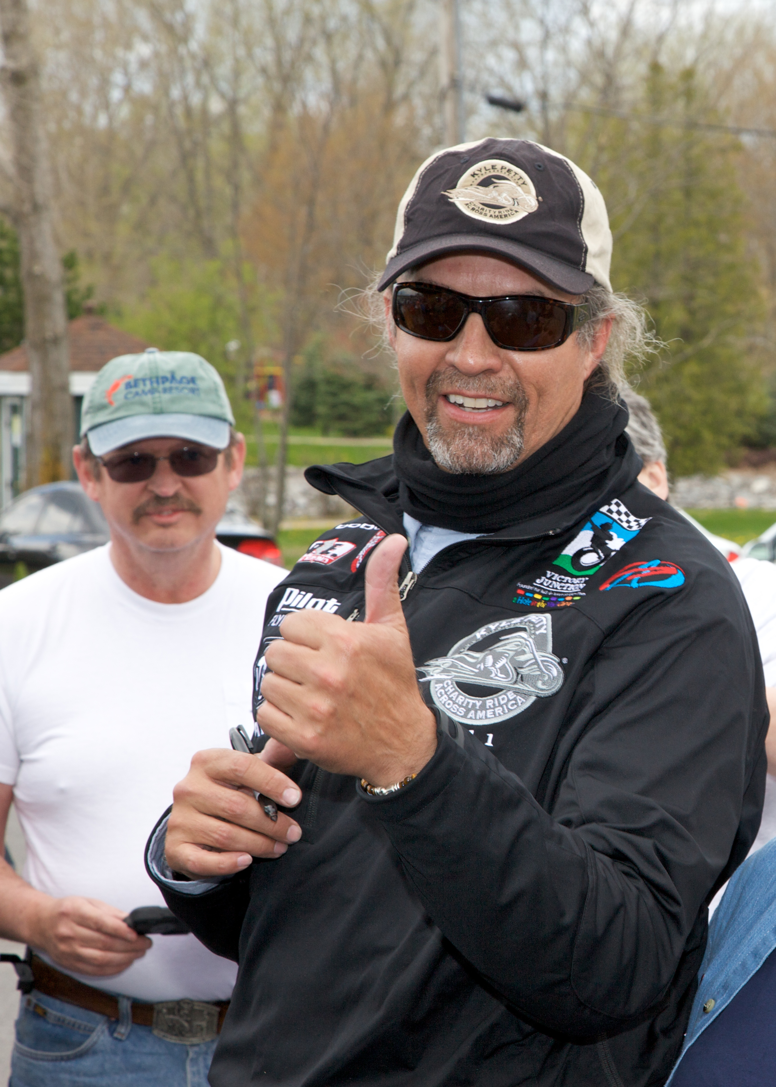 Kyle Petty in 2011 on his charity bike ride.